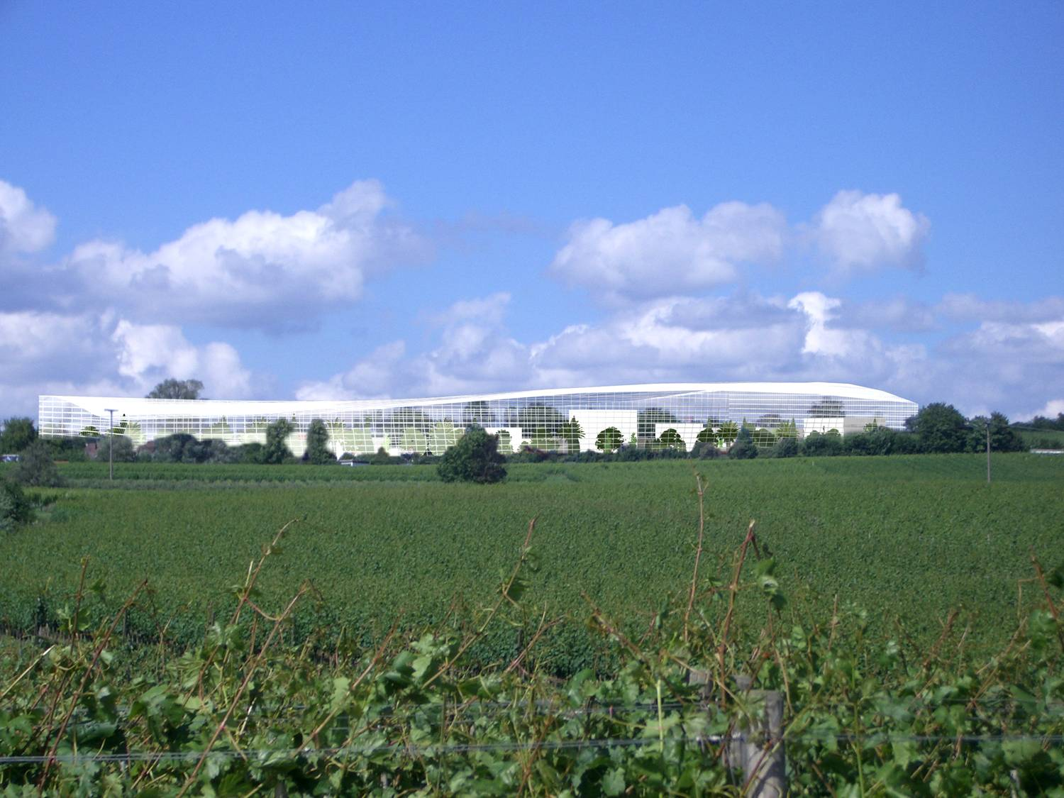 Research project: climate envelopes for commercial zones